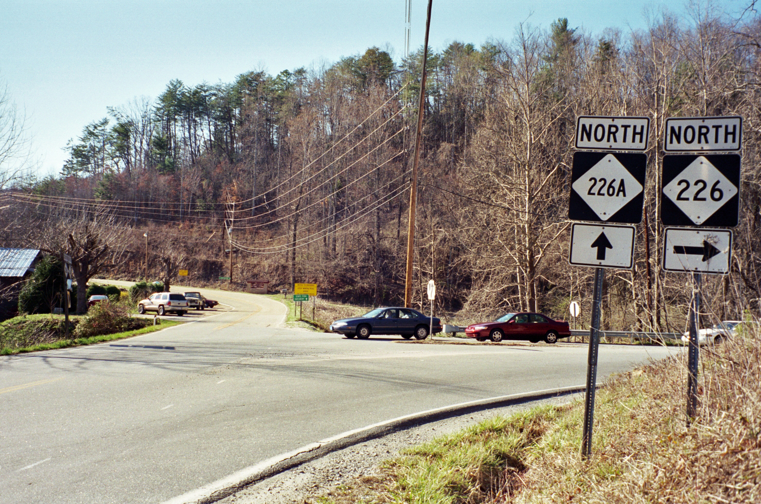 South end of NC 226A, along NC 226, near Woodlawn, North Carolina.